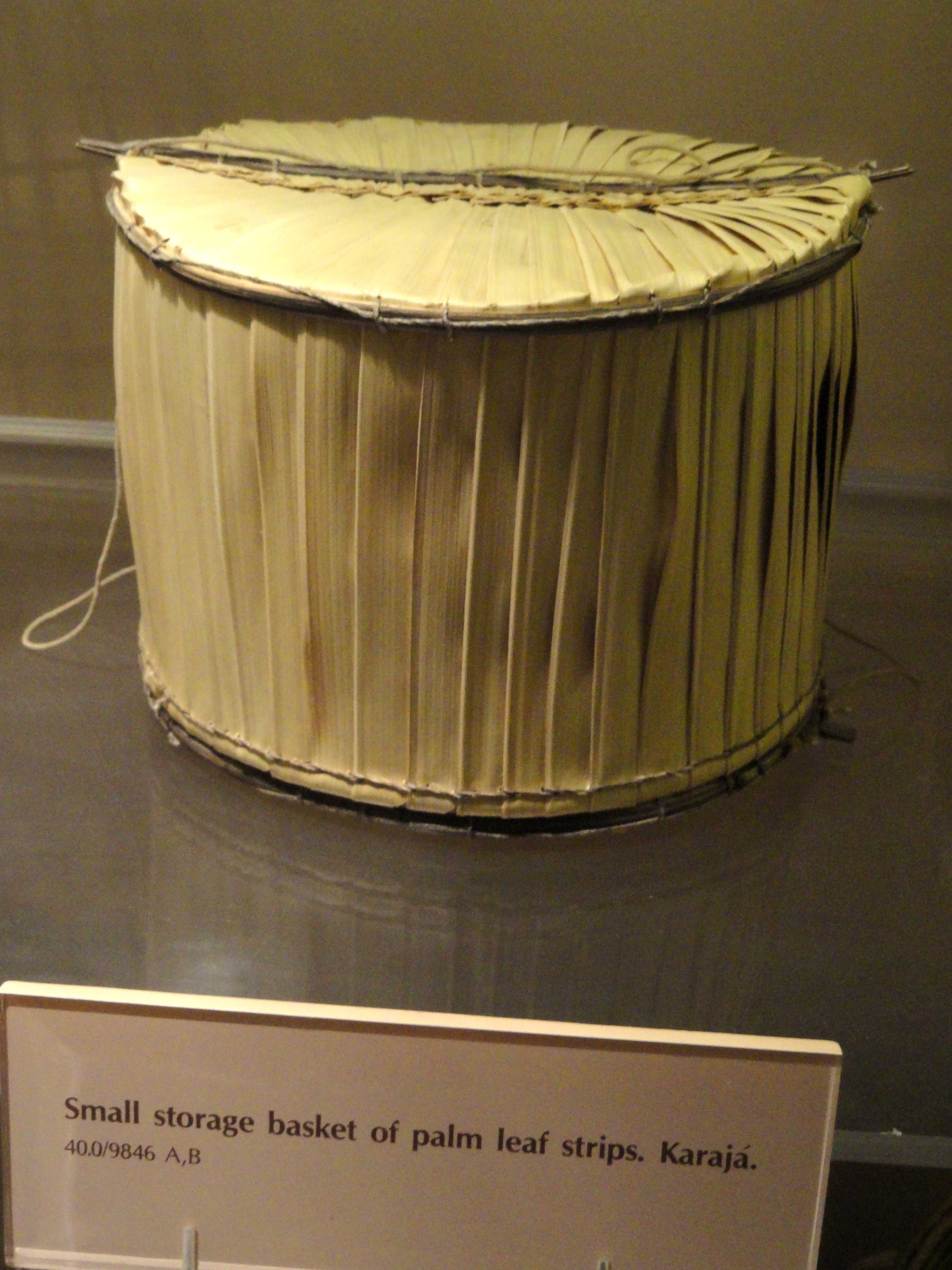 Exhibit in the South American collection of the American Museum of Natural History, Manhattan, New York City, New York, USA.